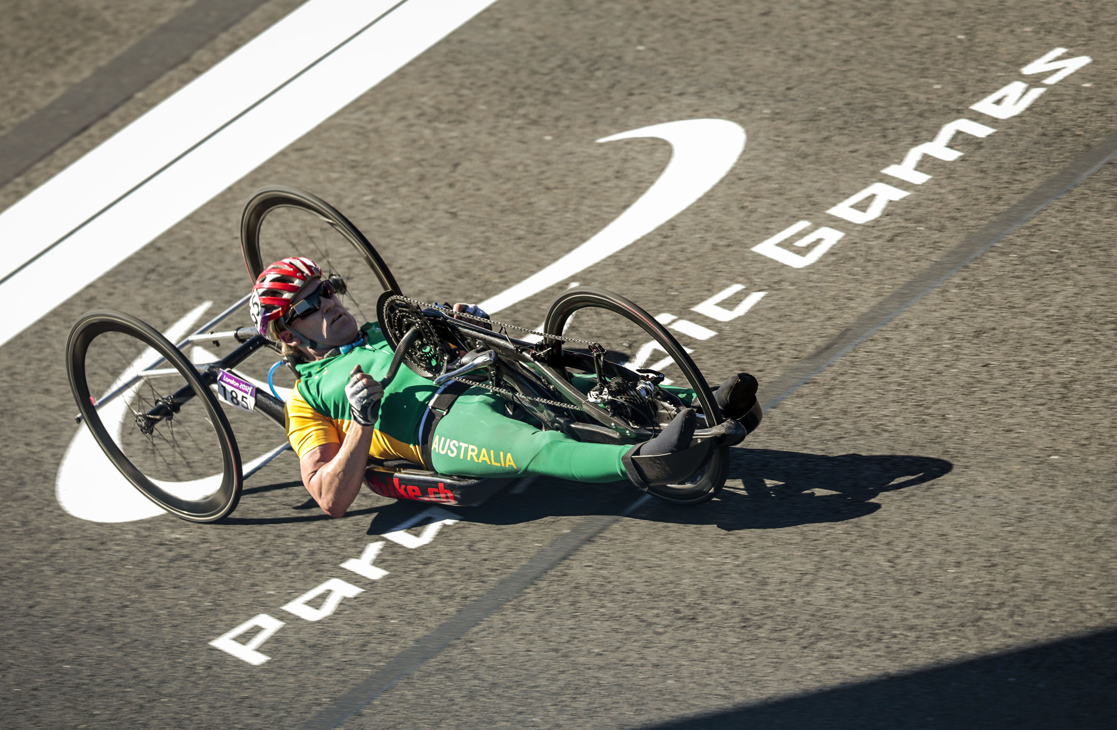 Photograph of Australian Paralympic team member Nigel Barley at the 2012 Summer Paralympic Games in London